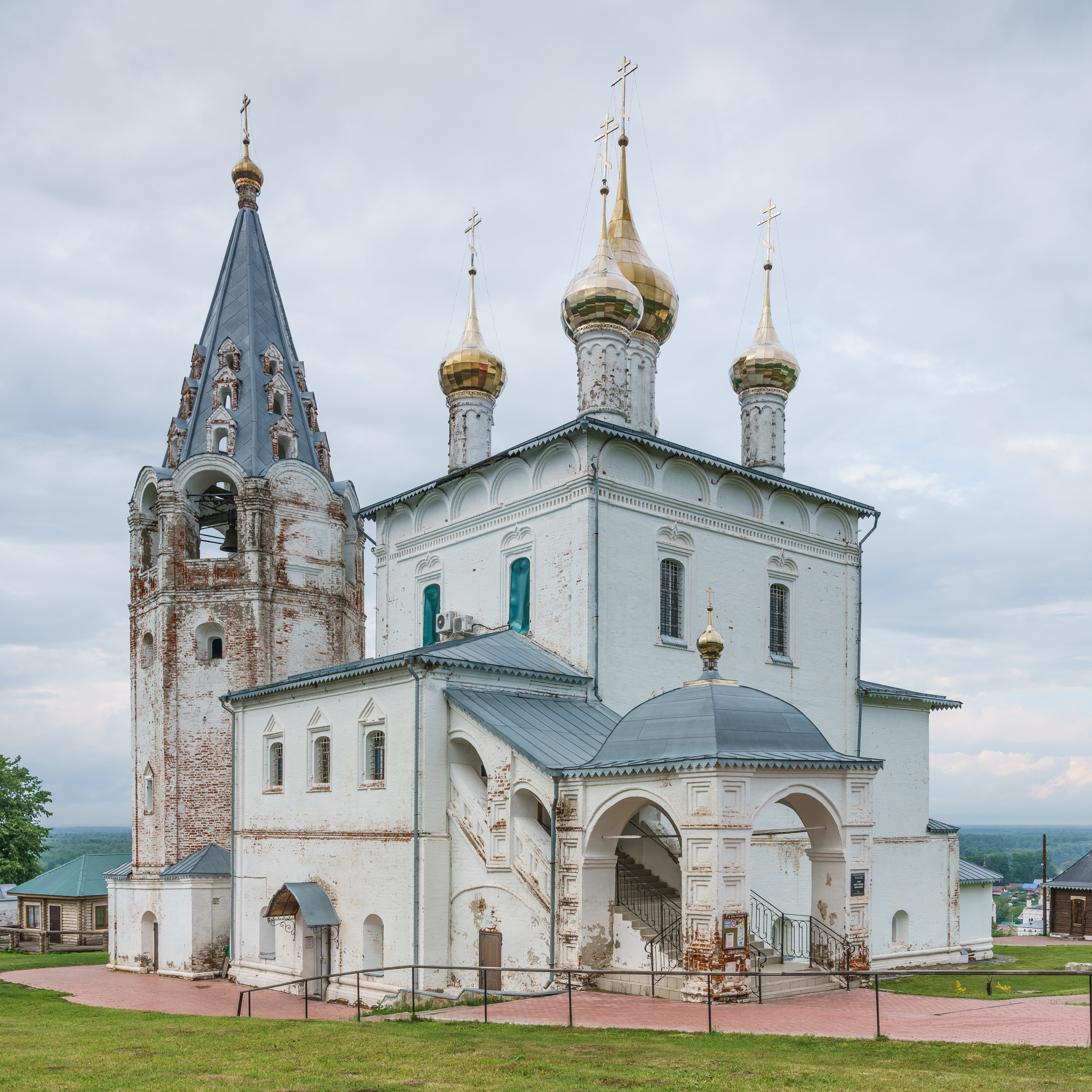 Nikolsky Monastery in Gorokhovets, Vladimir Oblast, Russia